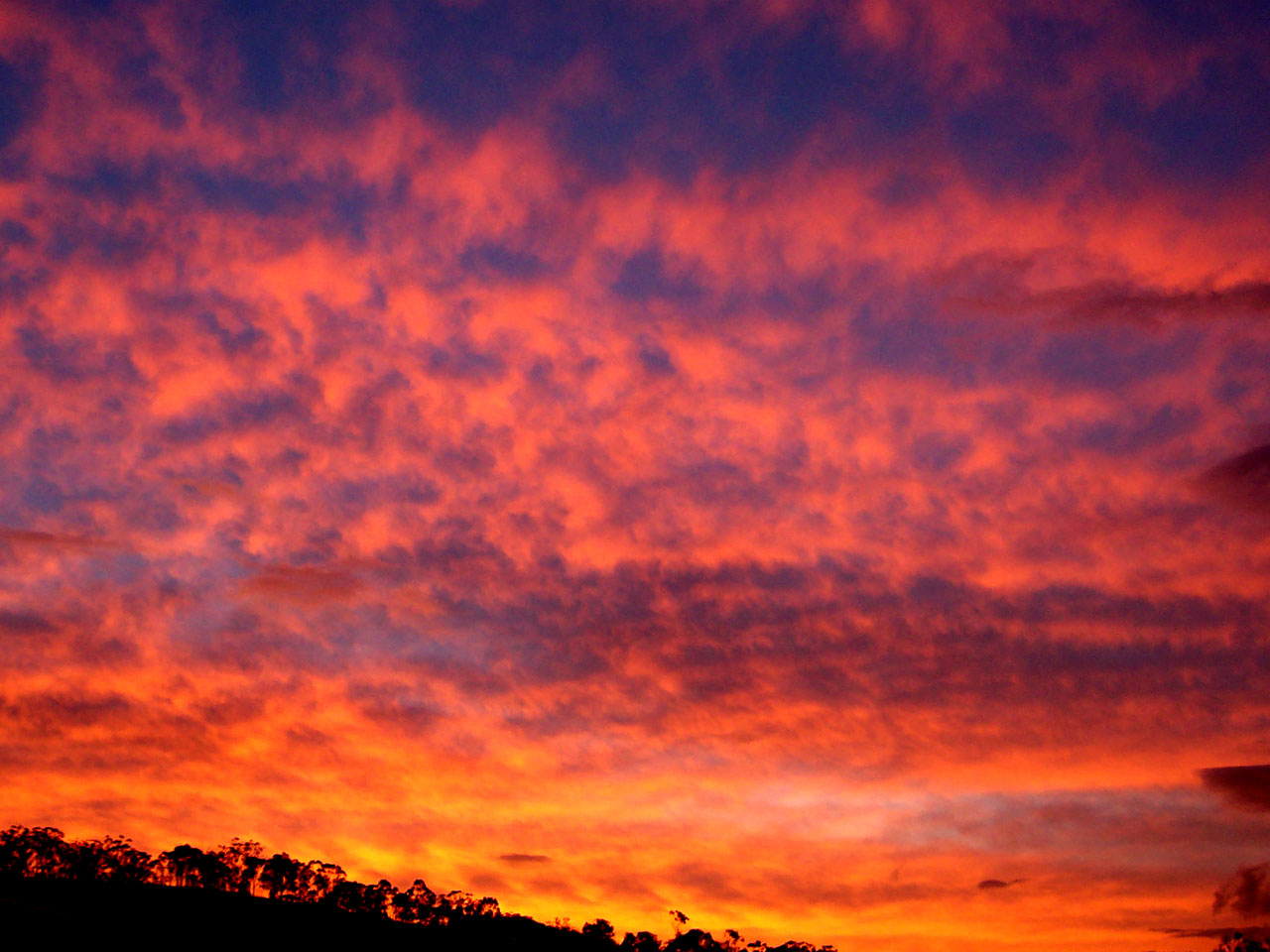 A crimson sunset.